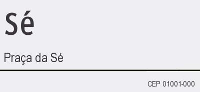 Sé Square sign, Sao Paulo, Brazil